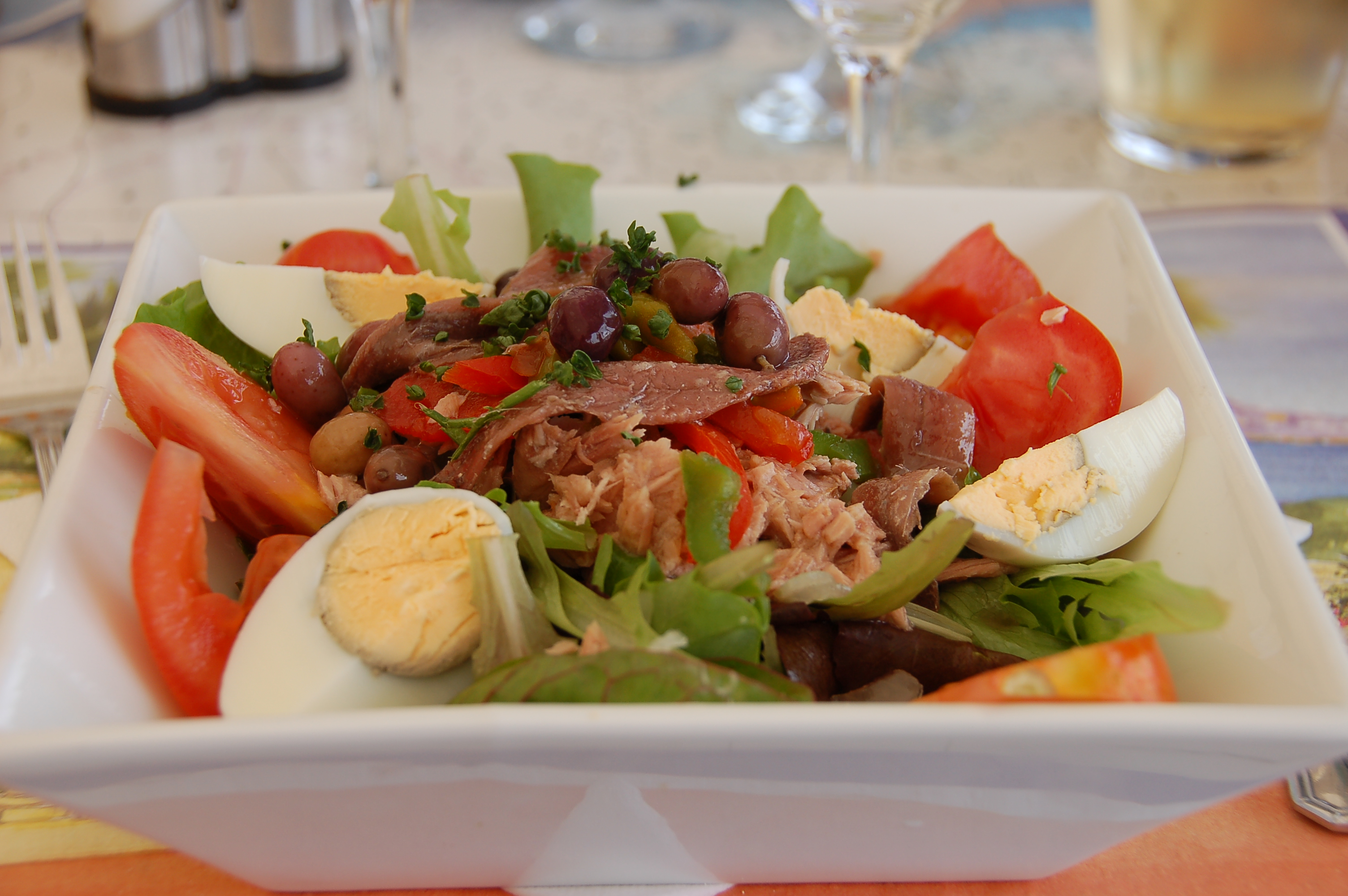 A Salad Niçoise in a restaurant at the coast of the Mediterranean Sea in France